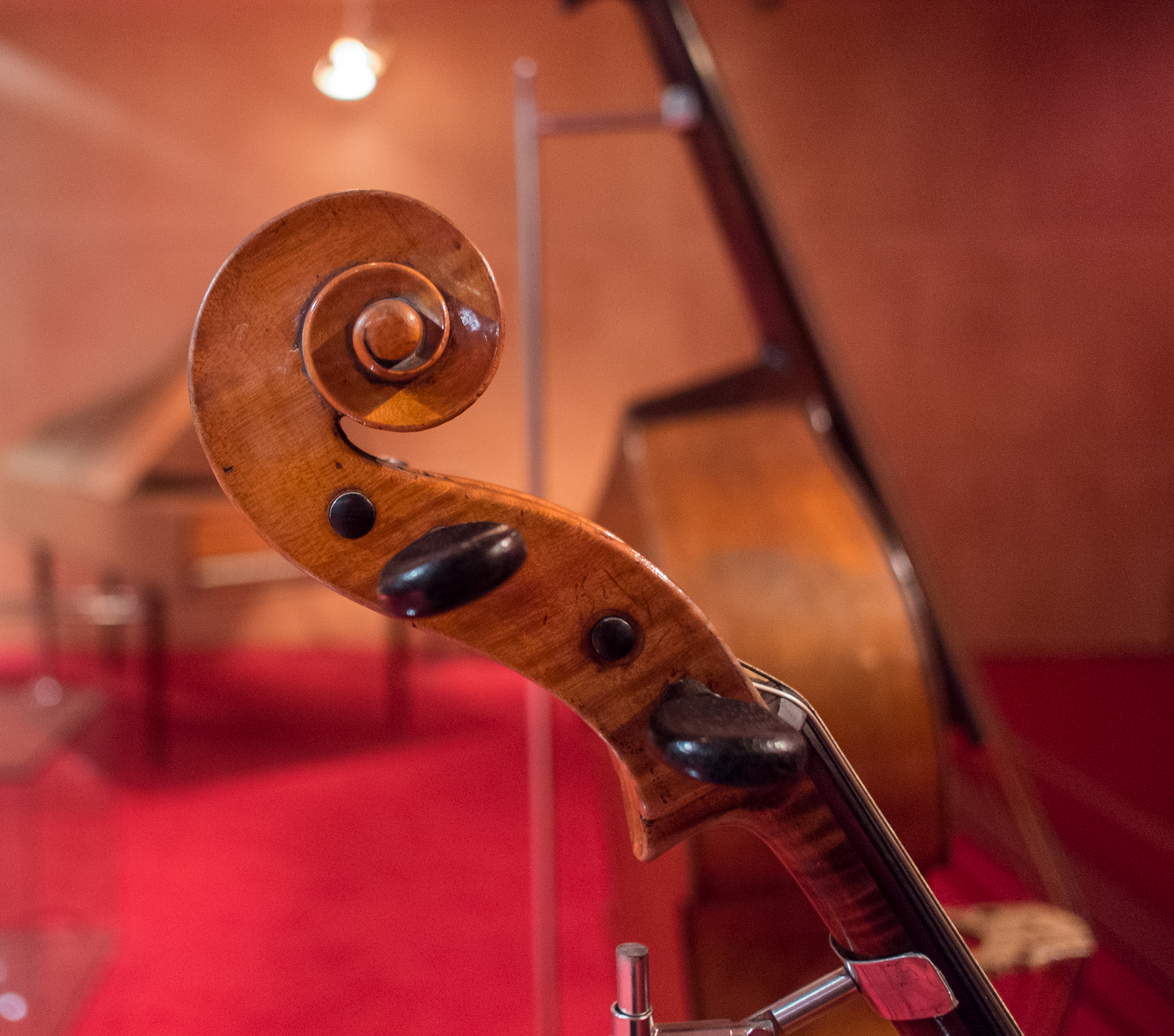 Head of a cello with volute form.